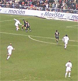 Real Madrid (white) vs. Real Sociedad (black) on January 5, 2005.Names: Ronaldo (with the ball) Beckham, number 23 Zidane, number 5 Raúl, number 7